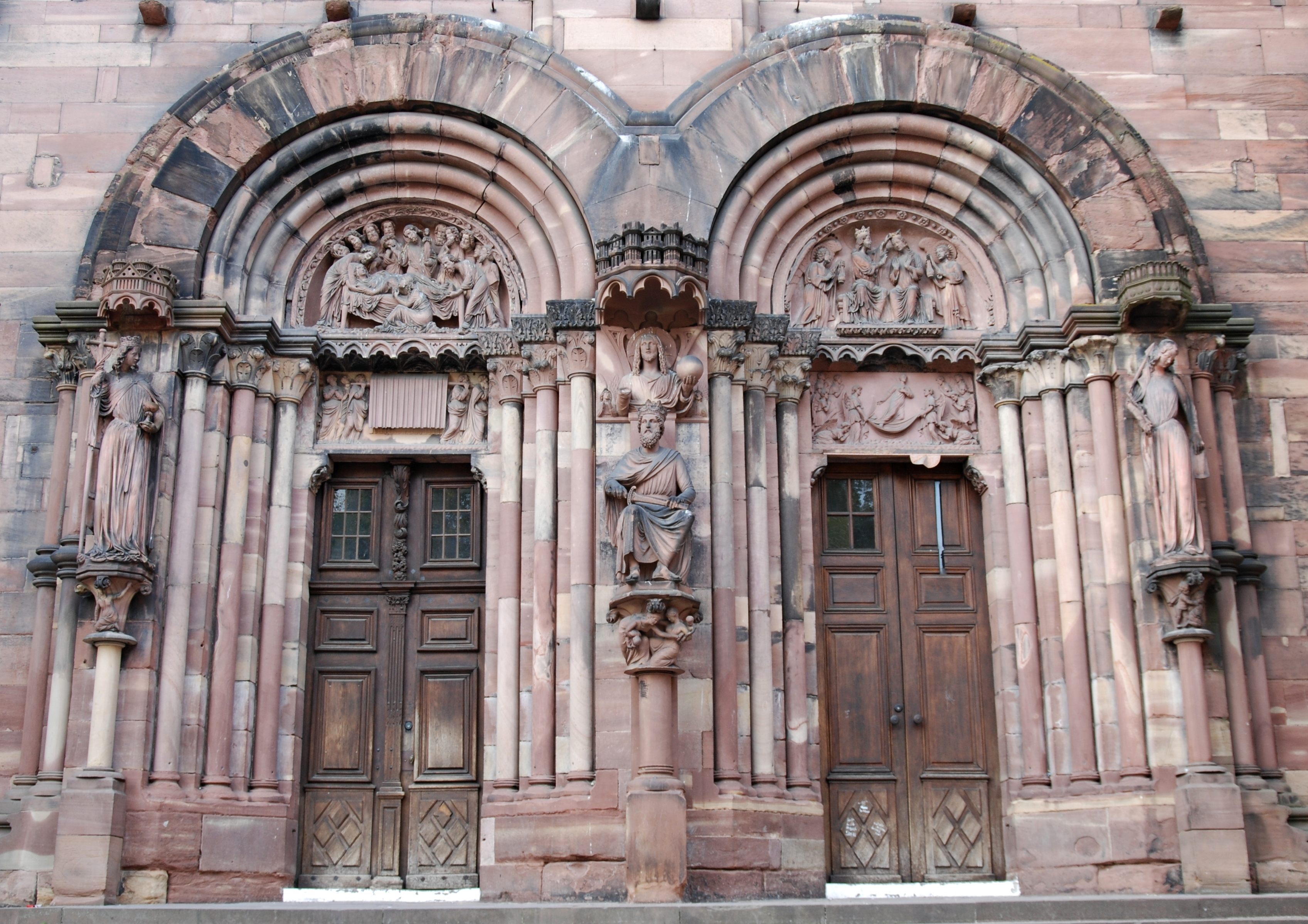 South portal of Notre-Dame cathedral in Strasbourg